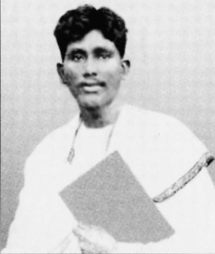 Kusuma Dharmanna (1884-1946), First Dalit poet, writer in Telugu